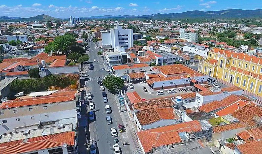 Serra Talhada,Pernambuco - Brasil.